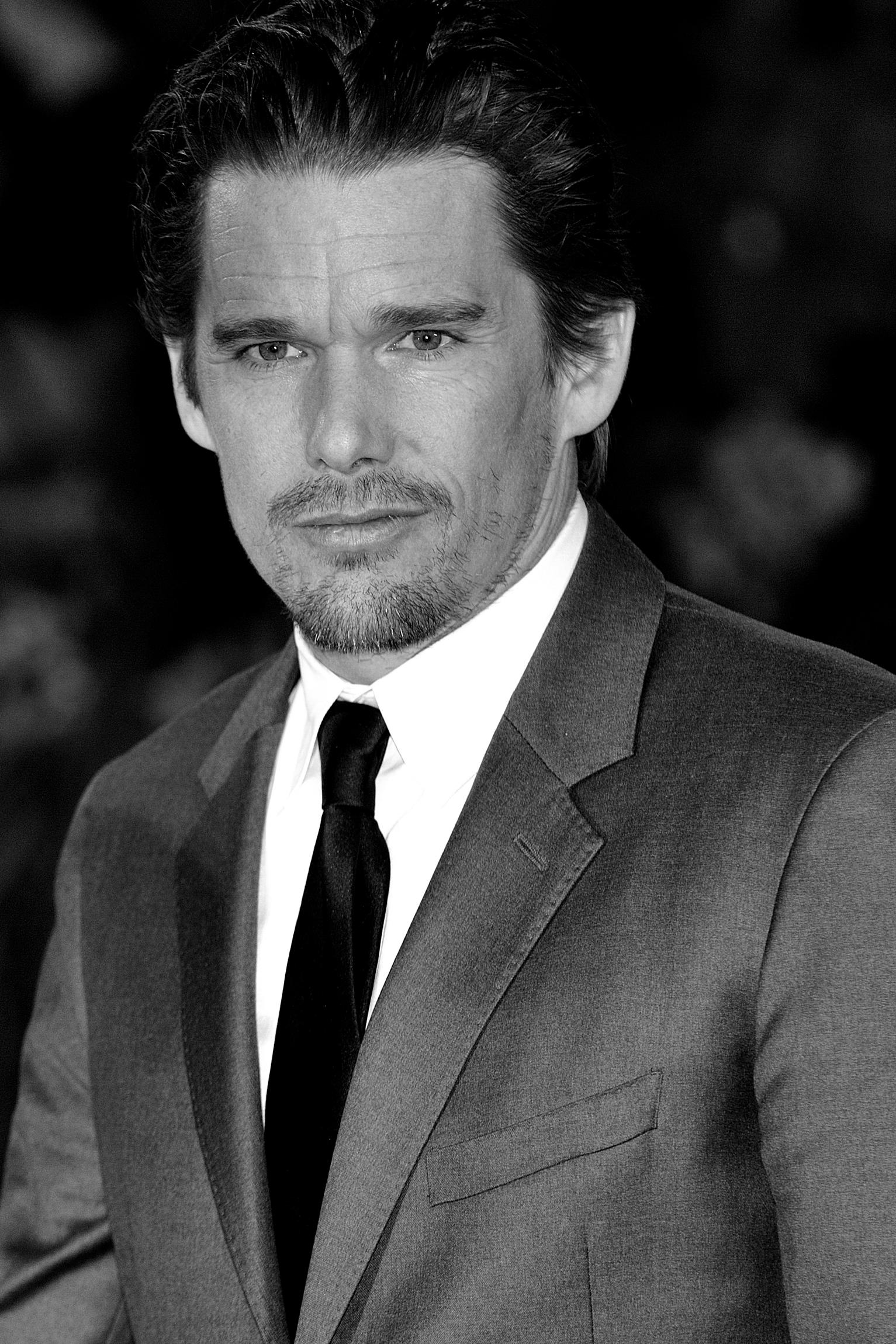 Actor Ethan Hawke - 66th Venice International Film Festival